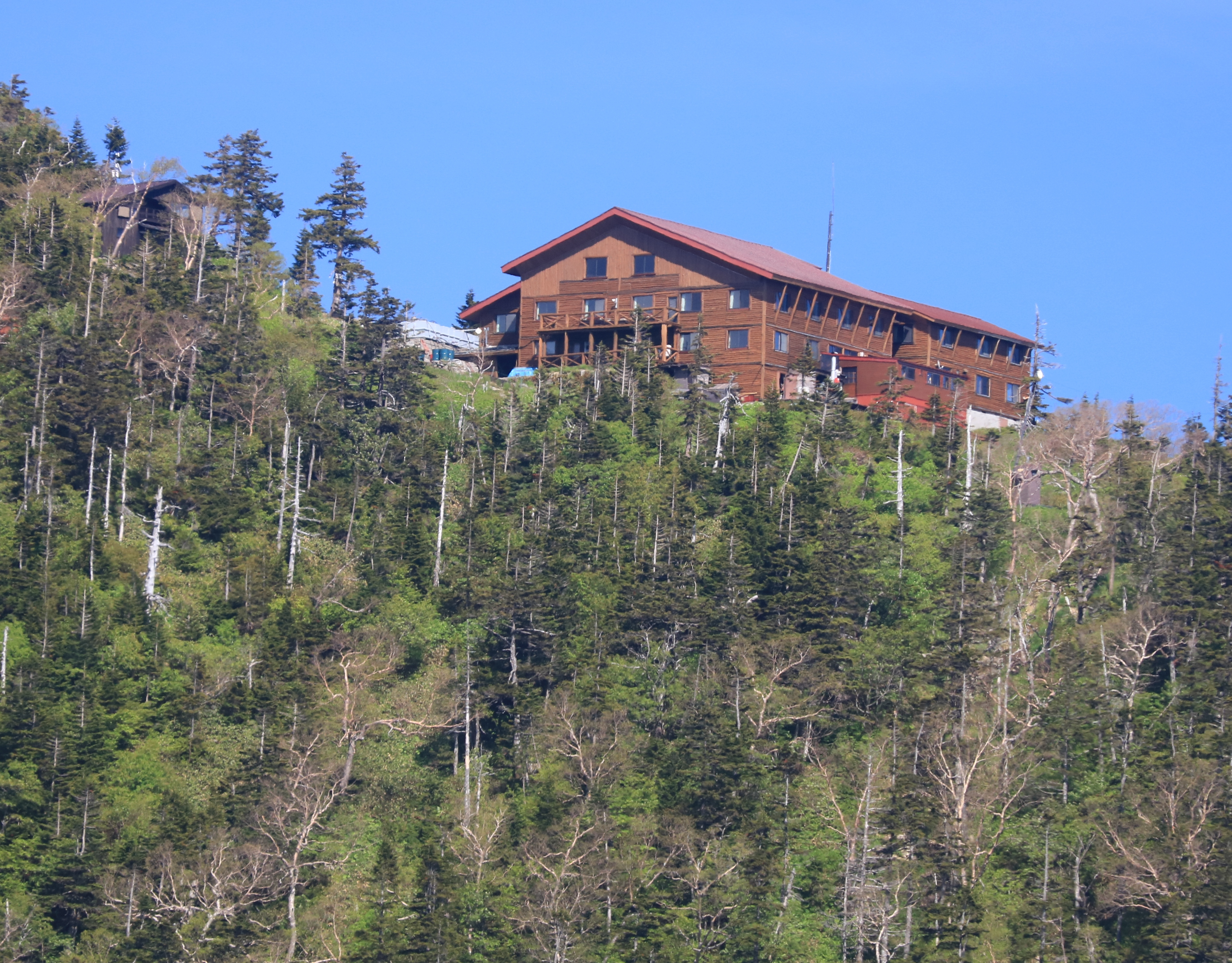 Nishiho Sanso in Mount Nishihotaka, Hida Mountains, Takayama, Gifu Prefecture, Japan.